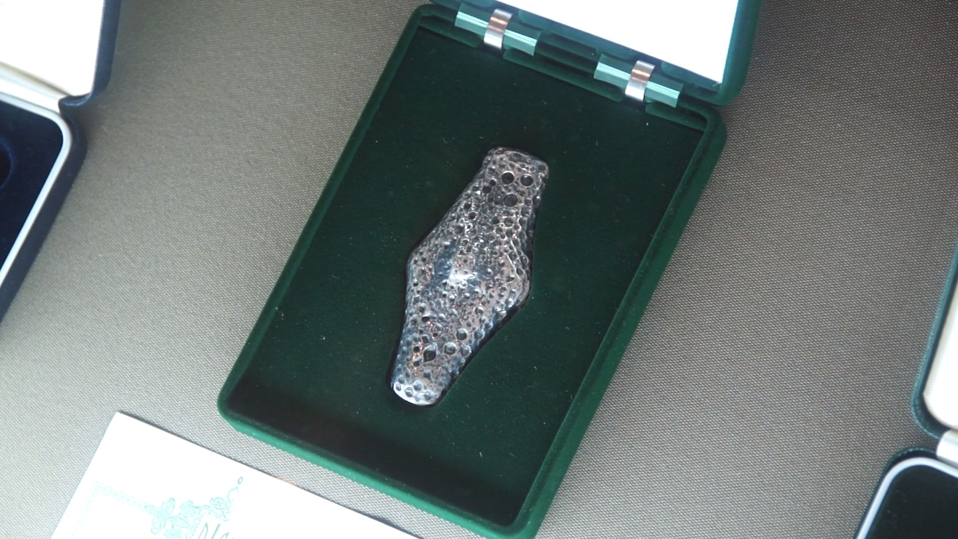 Ancient silver Hryvnia of Kievan Rus' in the updated exposition at the museum